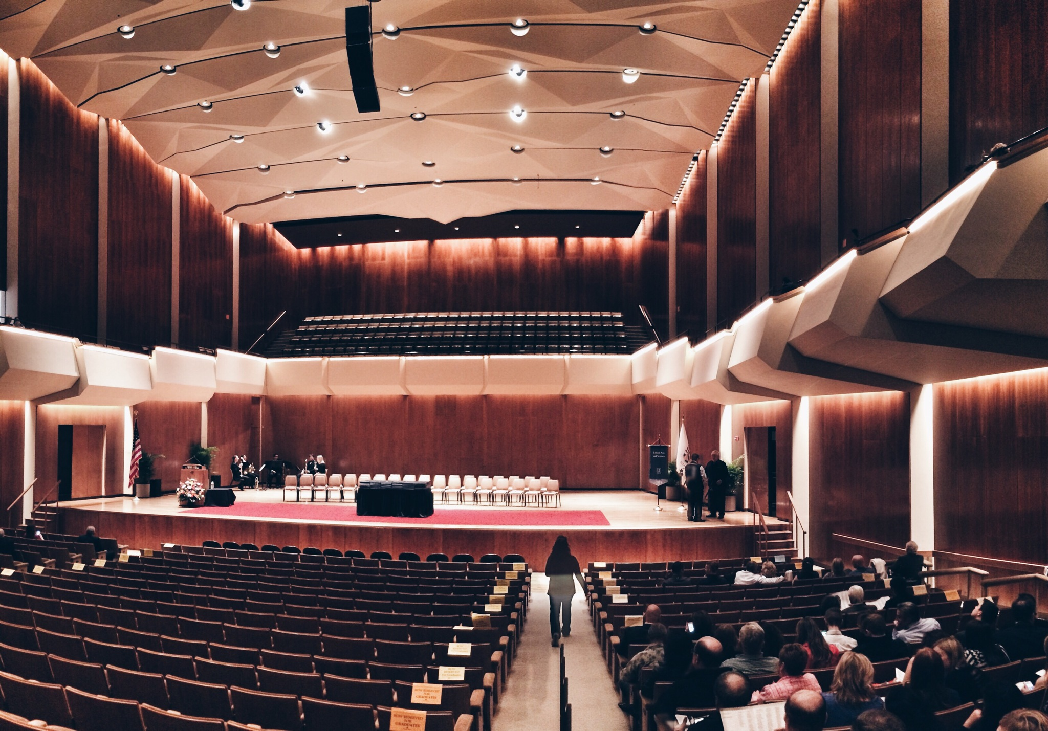 Foellinger Great Hall within the Krannert Center for the Performing Arts located in Urbana, Illinois, USA